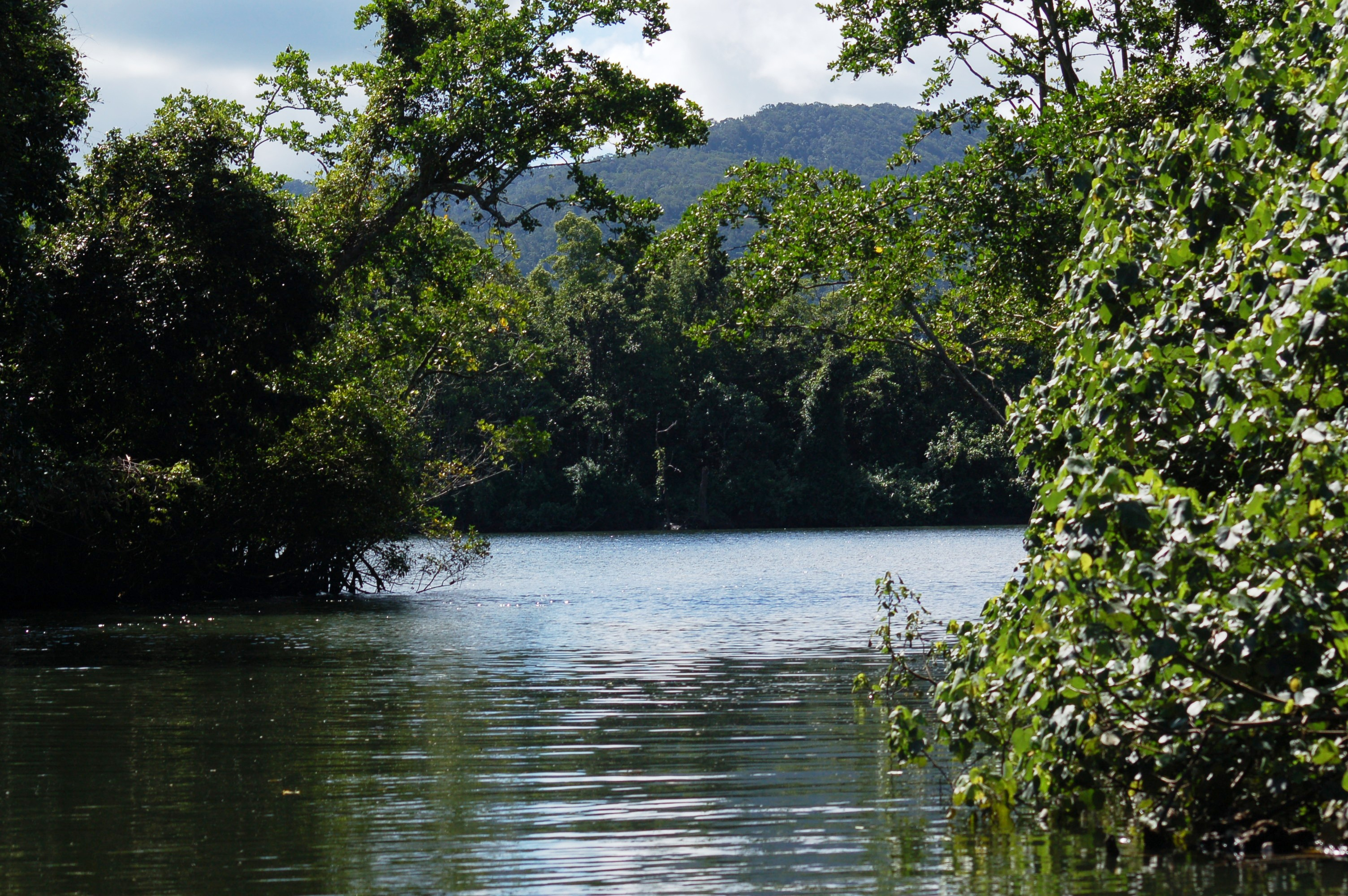 Daintree River, Queensland, Australia. In the foreground is a small tributary river to the Daintree. In the middle is the confluent between the tributary and the main river. In the background is the Daintree. Direction is looking north. The picture was taken approximately 4km west of the vehicle ferry.